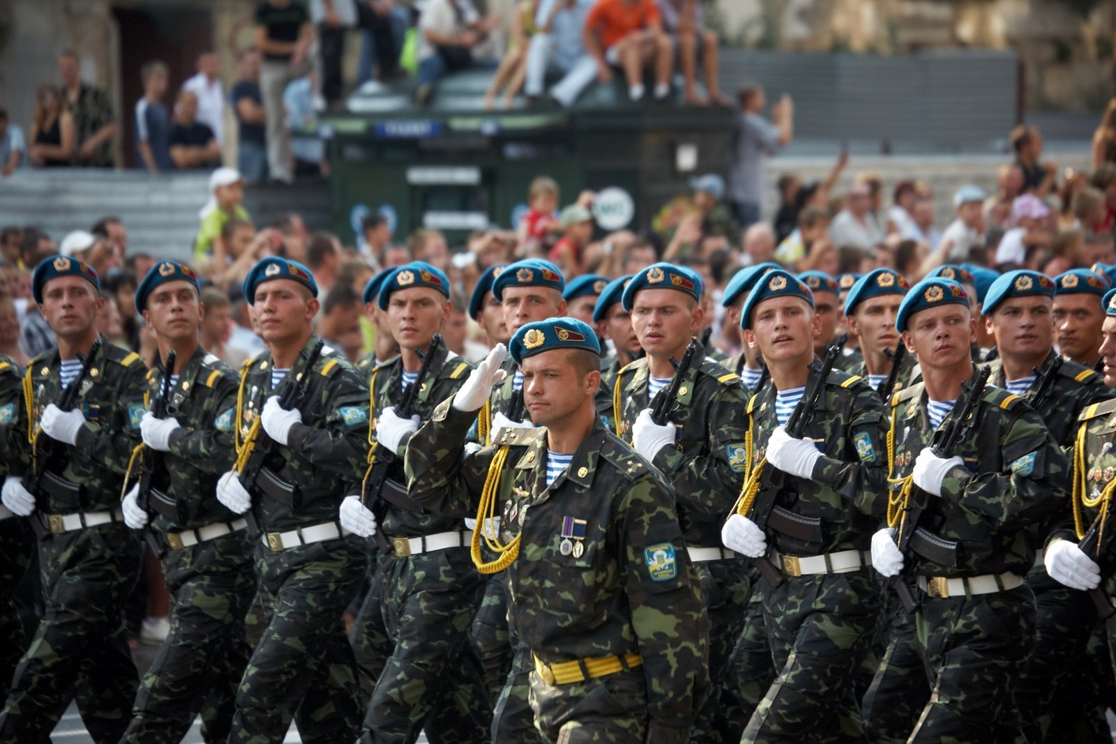 Ukrainian Airmobile Forces